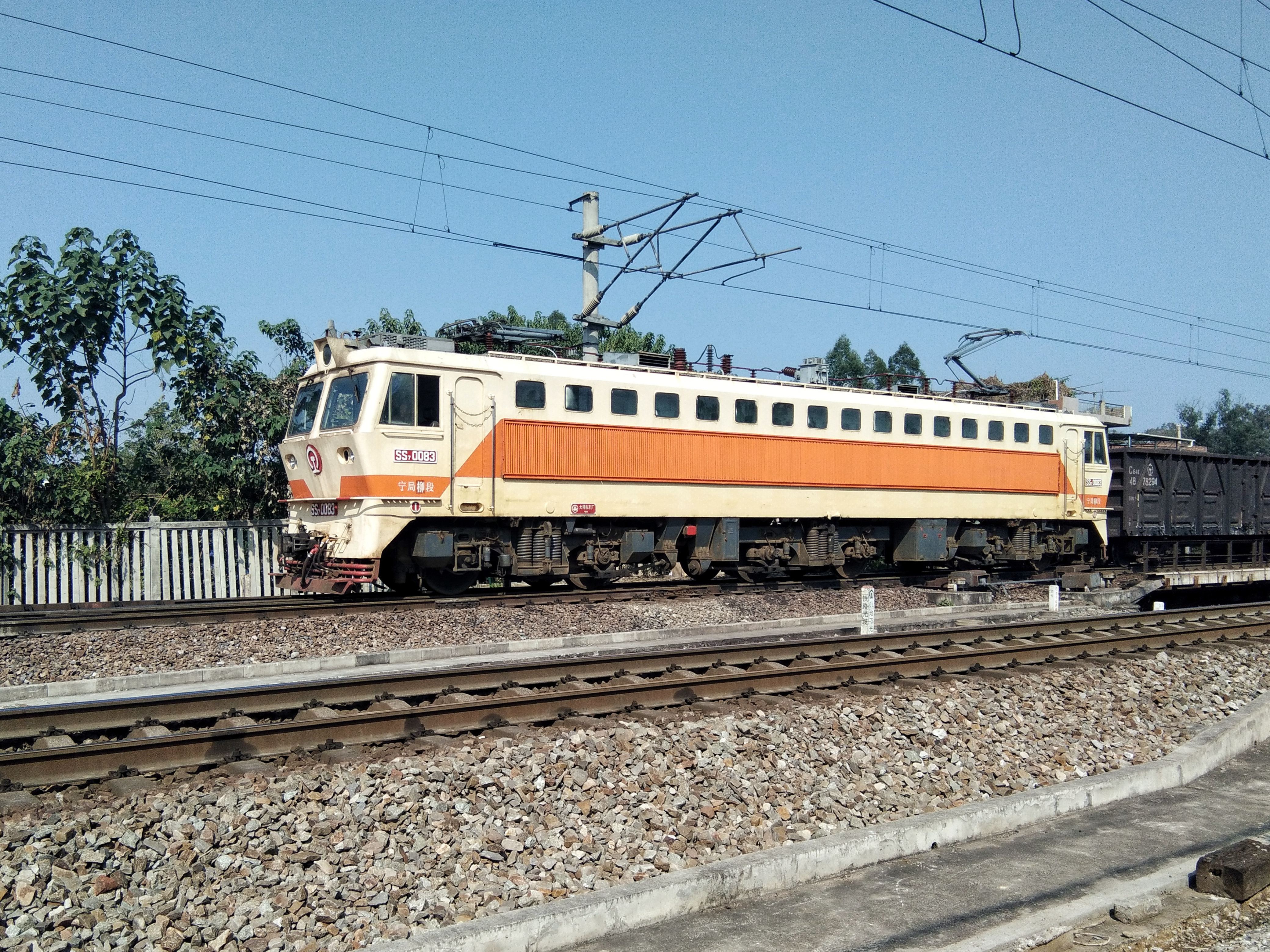 SS7-0083 in Zhegujiang Railway Station, Liubei Area, Liuzhou, December 2017.